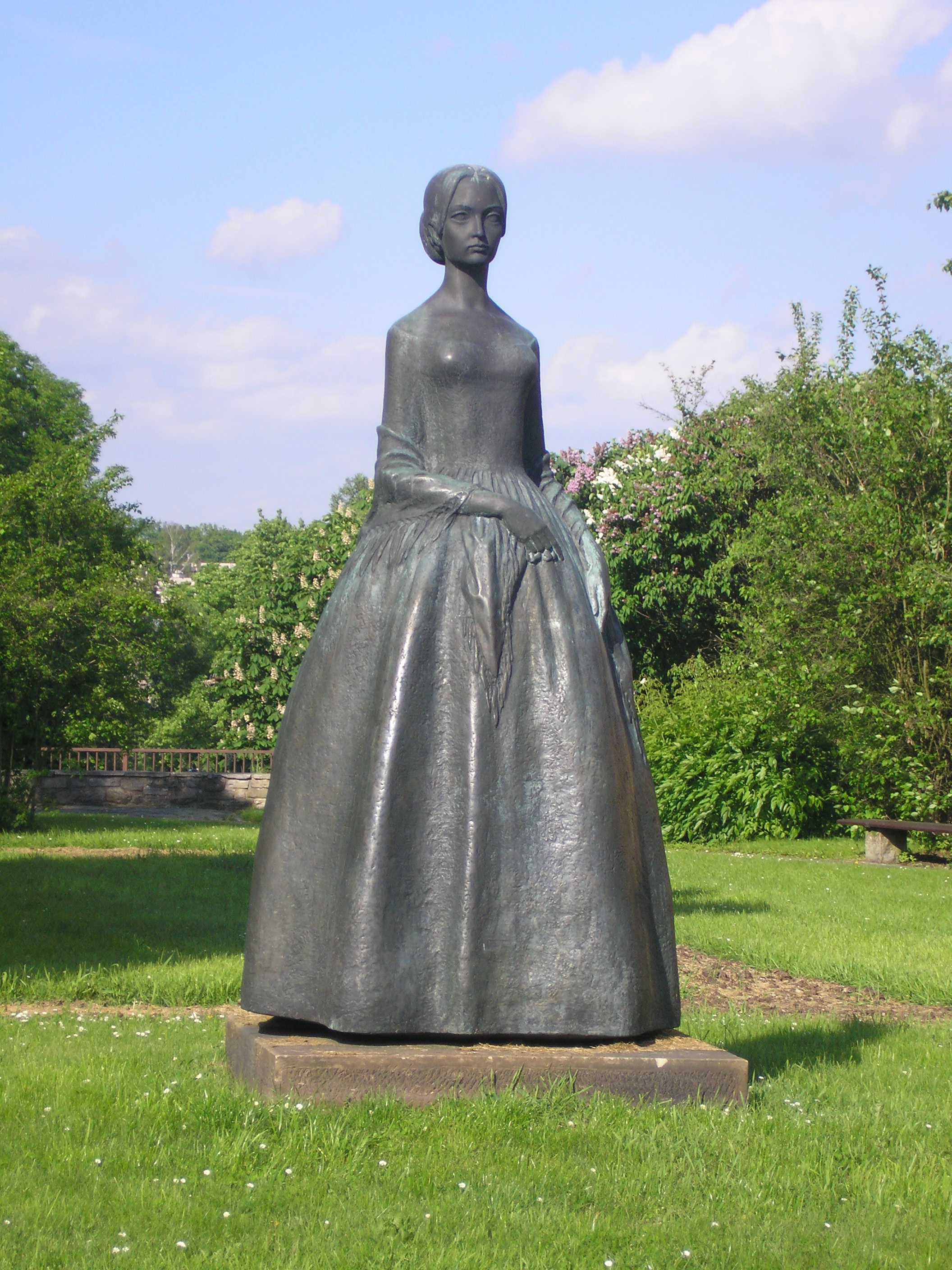 Statue of Božena Němcová in Česká Skalice